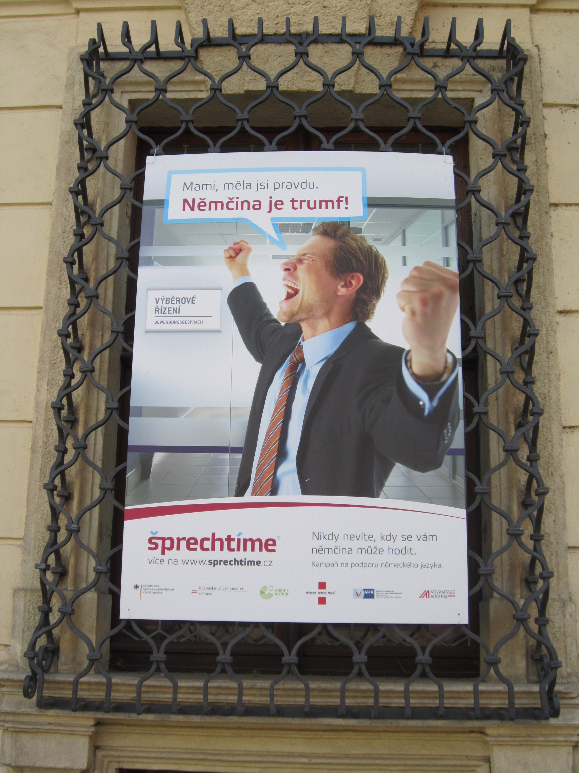 German Embassy Prague: German language advertisement